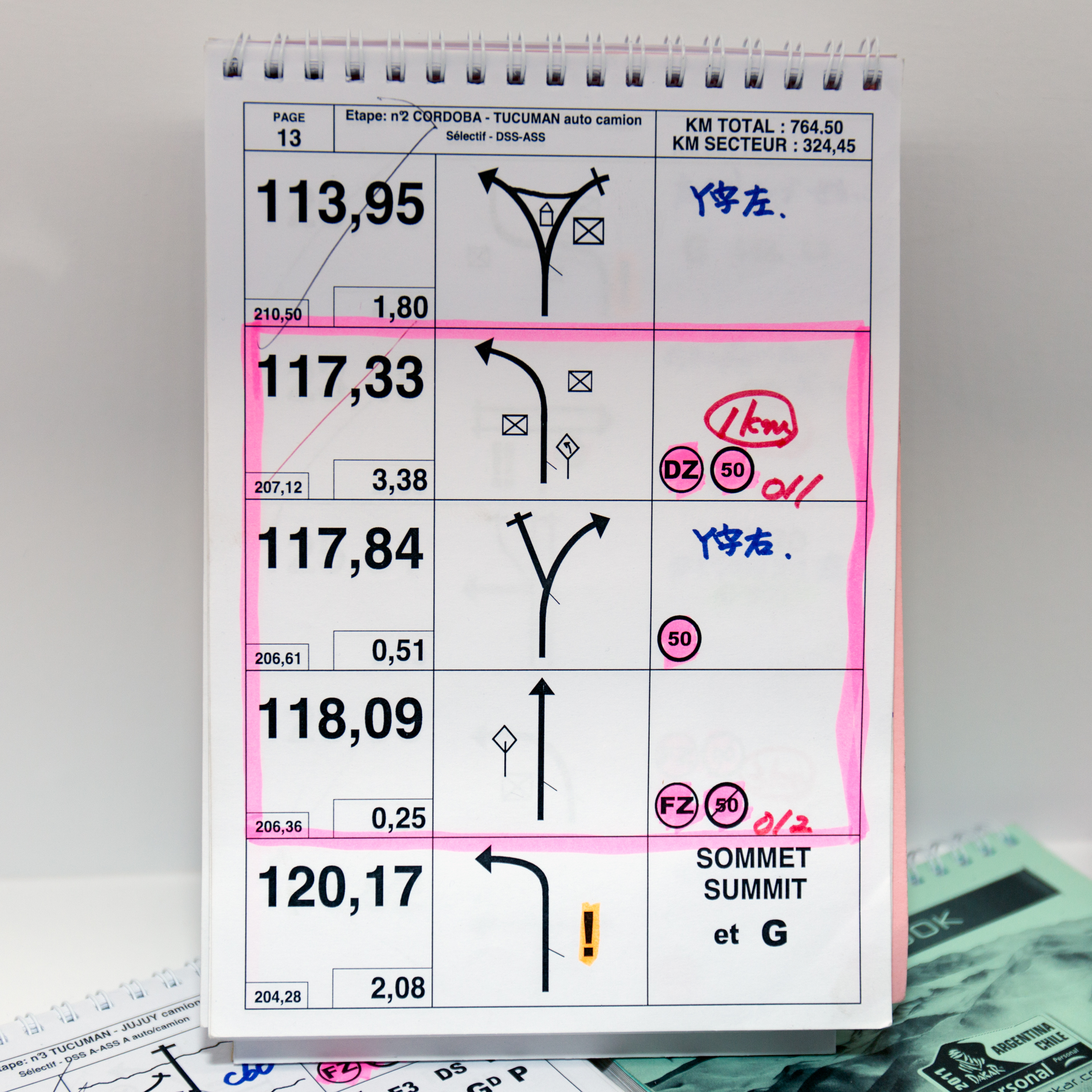 Tokyo Motor Show 2013: Hino Team Sugawara roadbook